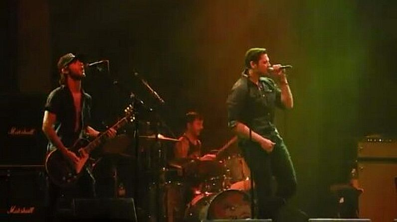 Adelitas Way at the House of Blues September 5, 2014